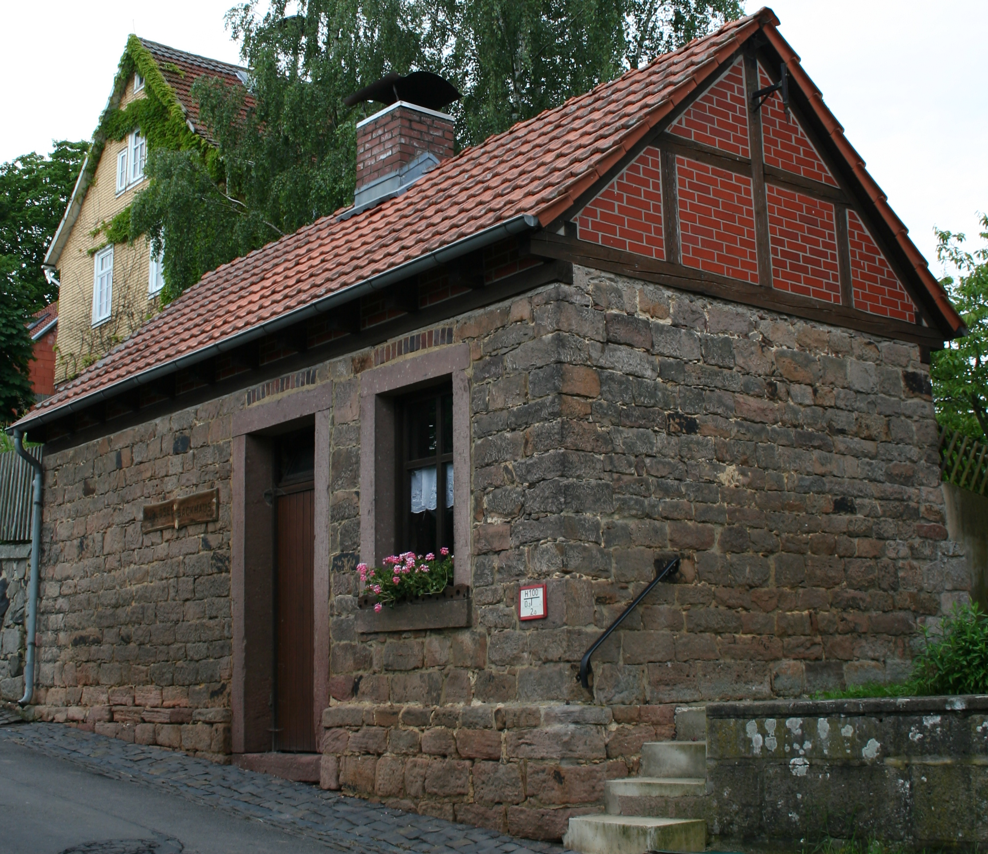 Hohwaldstrasse 13, Rudlos, Lauterbach, Hesse, Germany